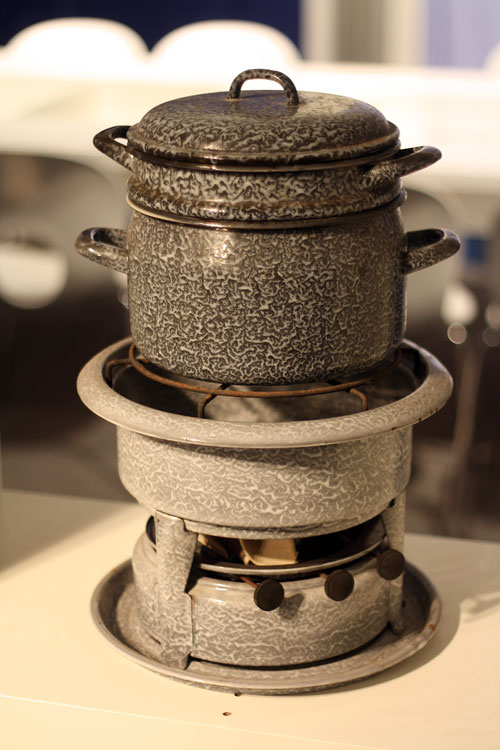 Indonesian rice cooker / steamer.